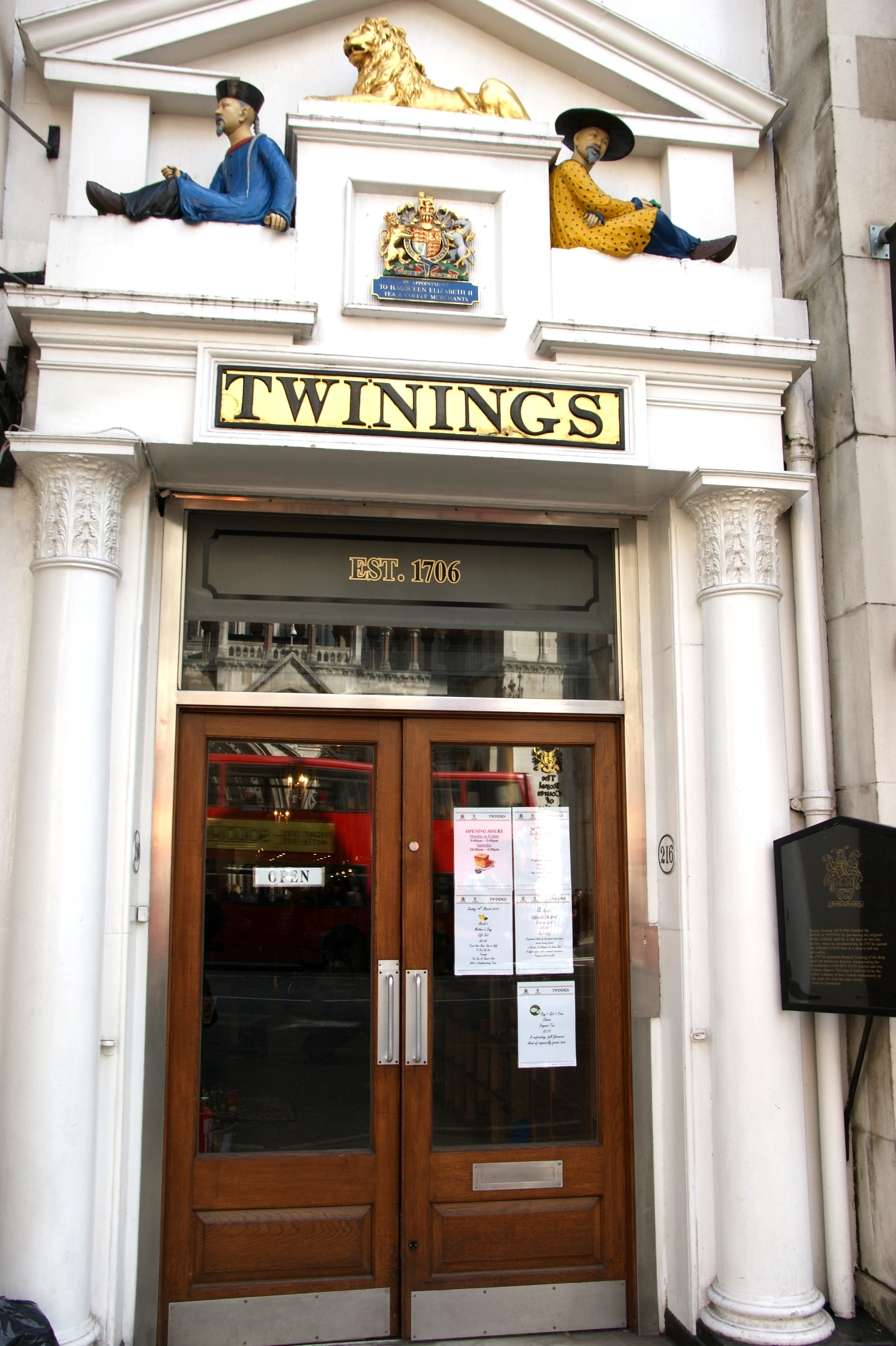 The first Twinings store on the Strand, London.